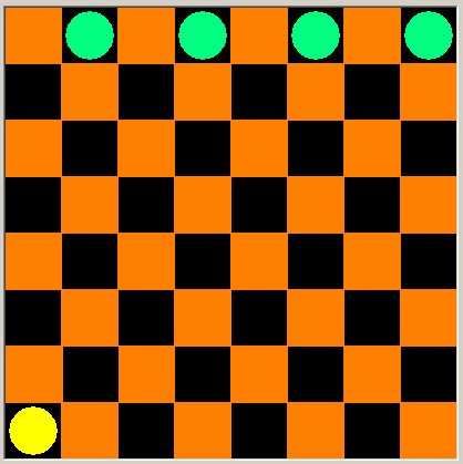 An image of the starting position of the fox and hounds.